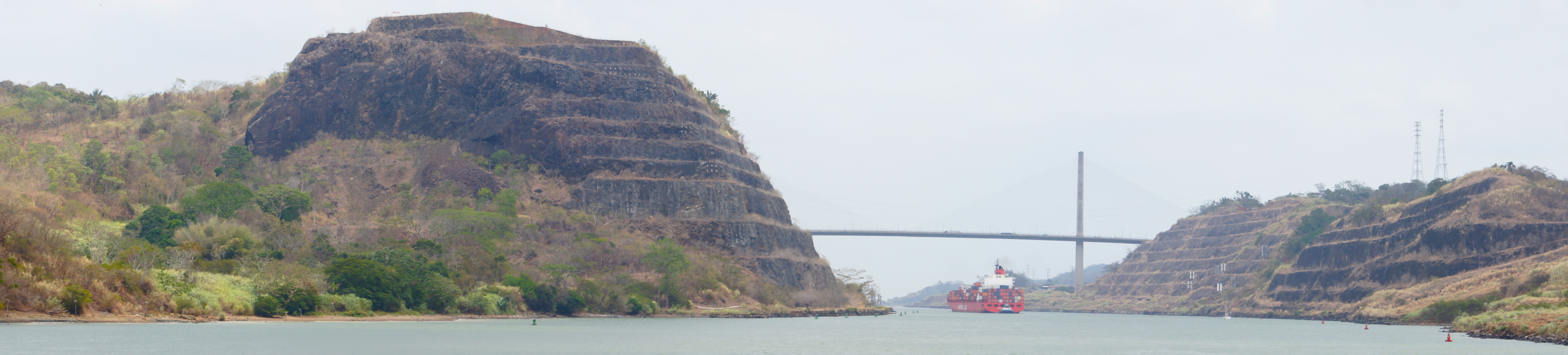 Gold Hill on the left and Contractor Hill on the right, this is the site of the highest elevation of the Panama Canal construction.